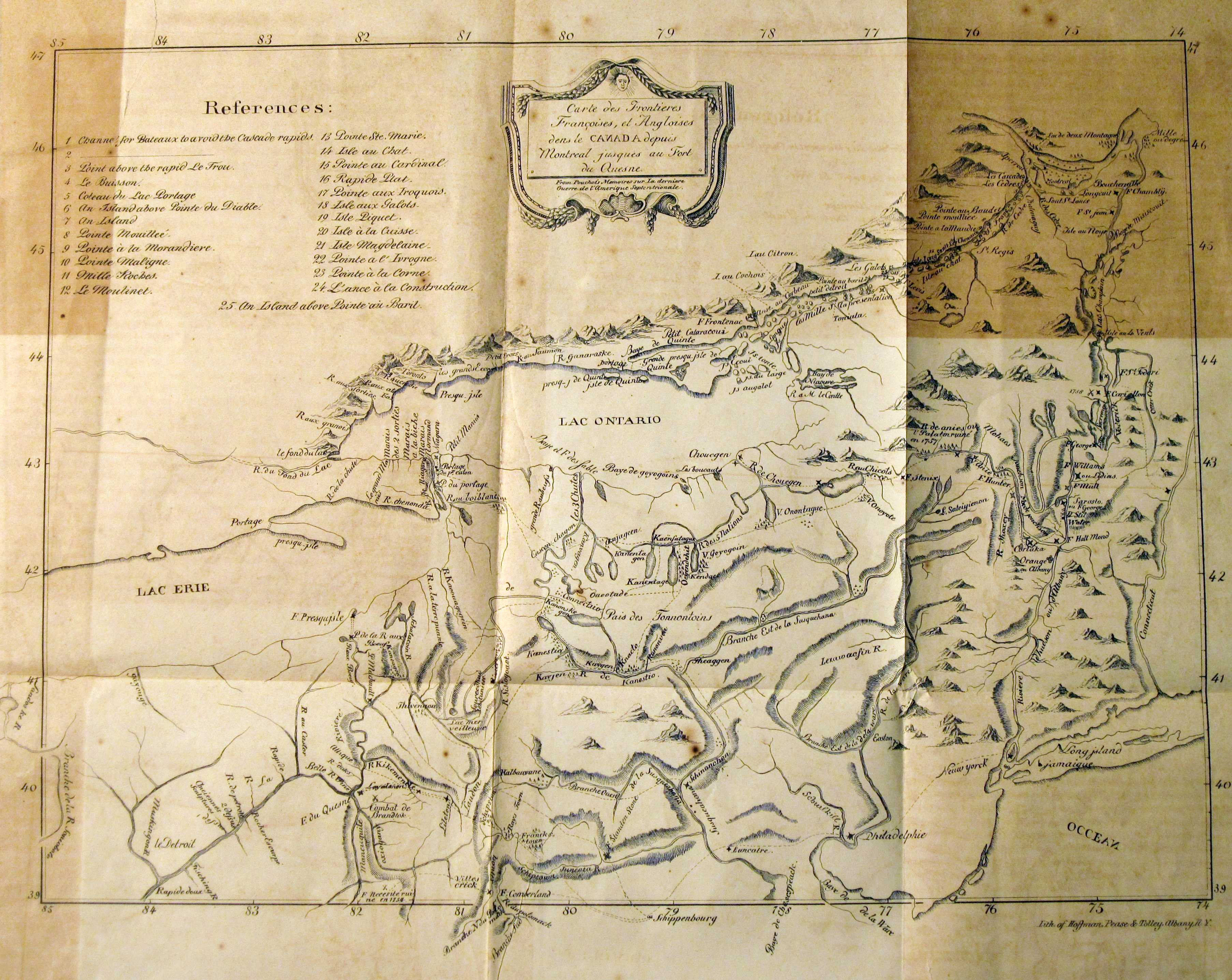 Map of Canada (1955/1959) made by Pierre Pouchot de Maupas